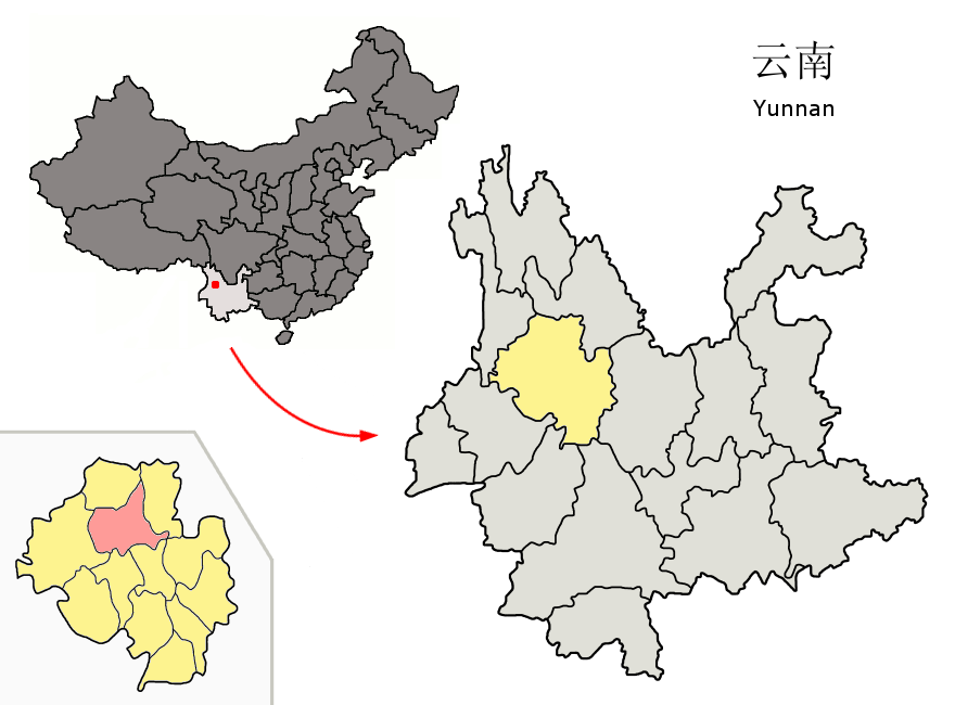 Location of Eryuan County (pink) and Dali Prefecture (yellow) within Yunnan province of China Map drawn in september 2007 using various sources, mainly : Yunnan province administrative regions GIS data: 1:1M, County level, 1990 Yunnan Counties map from